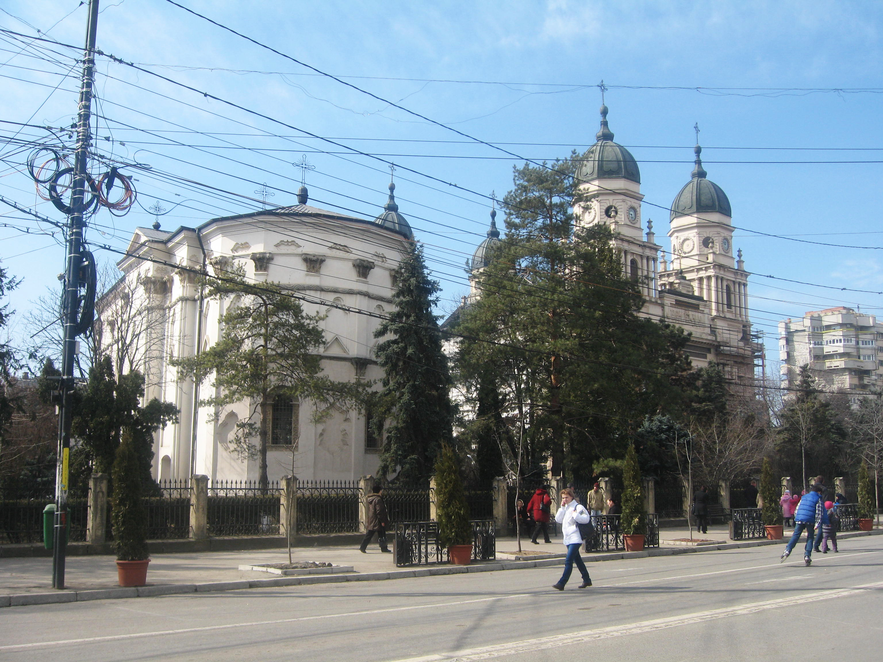 St.George Church in Iași (old Metropolitan Cathedral)